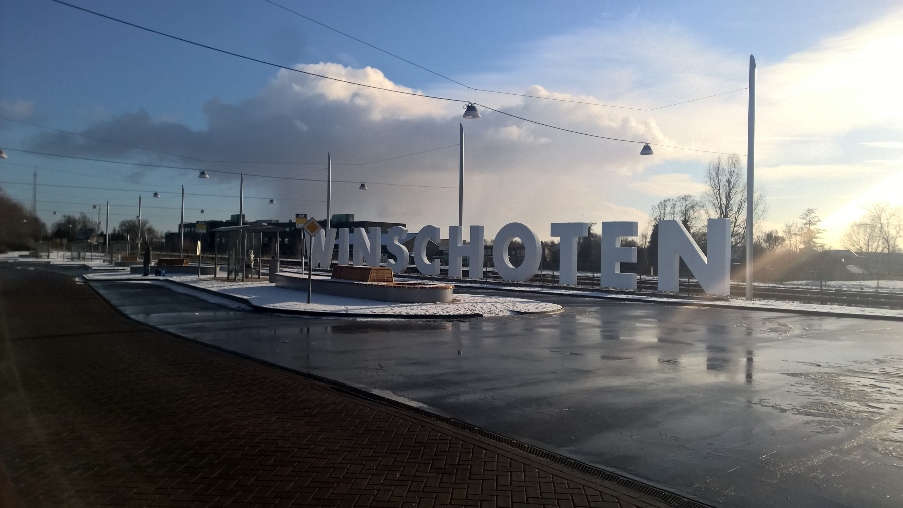 A Hollywood sign-style sign/Amsterdam sign-style sign at the Winschoten Station in Winschoten, Oldambt.